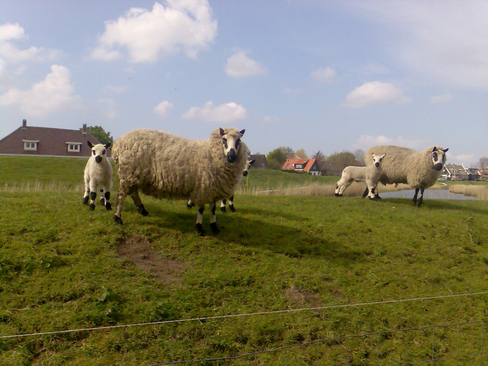 Kerry Hill, two ewes and their lambs.